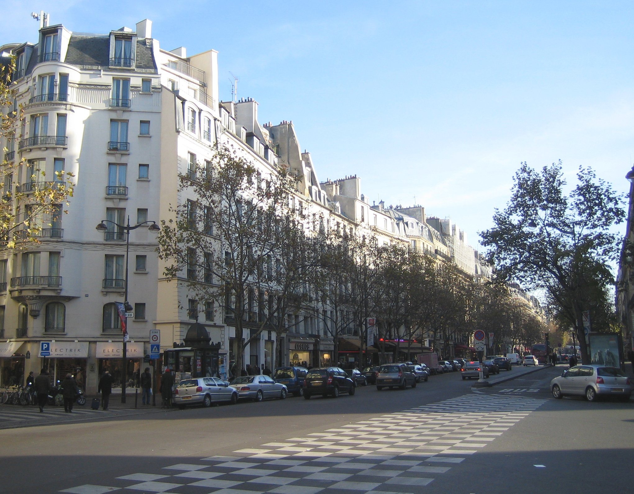 Paris, bld Saint-Germain at the corner of rue de Buci and rue du Four